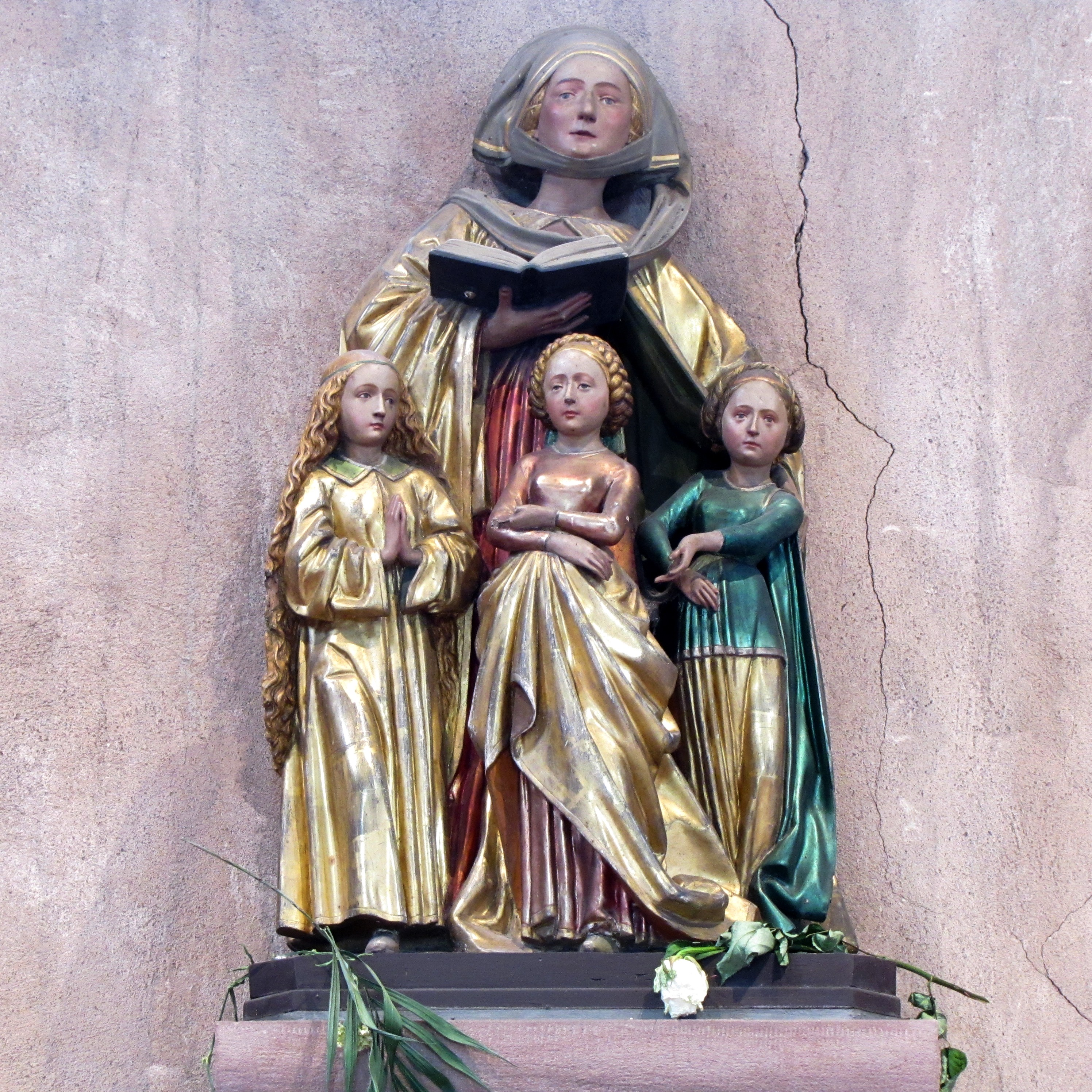 Sculpture of St Sophia with three daughters (1470), St Trophime Church of Eschau, Alsace, Lower Rhine